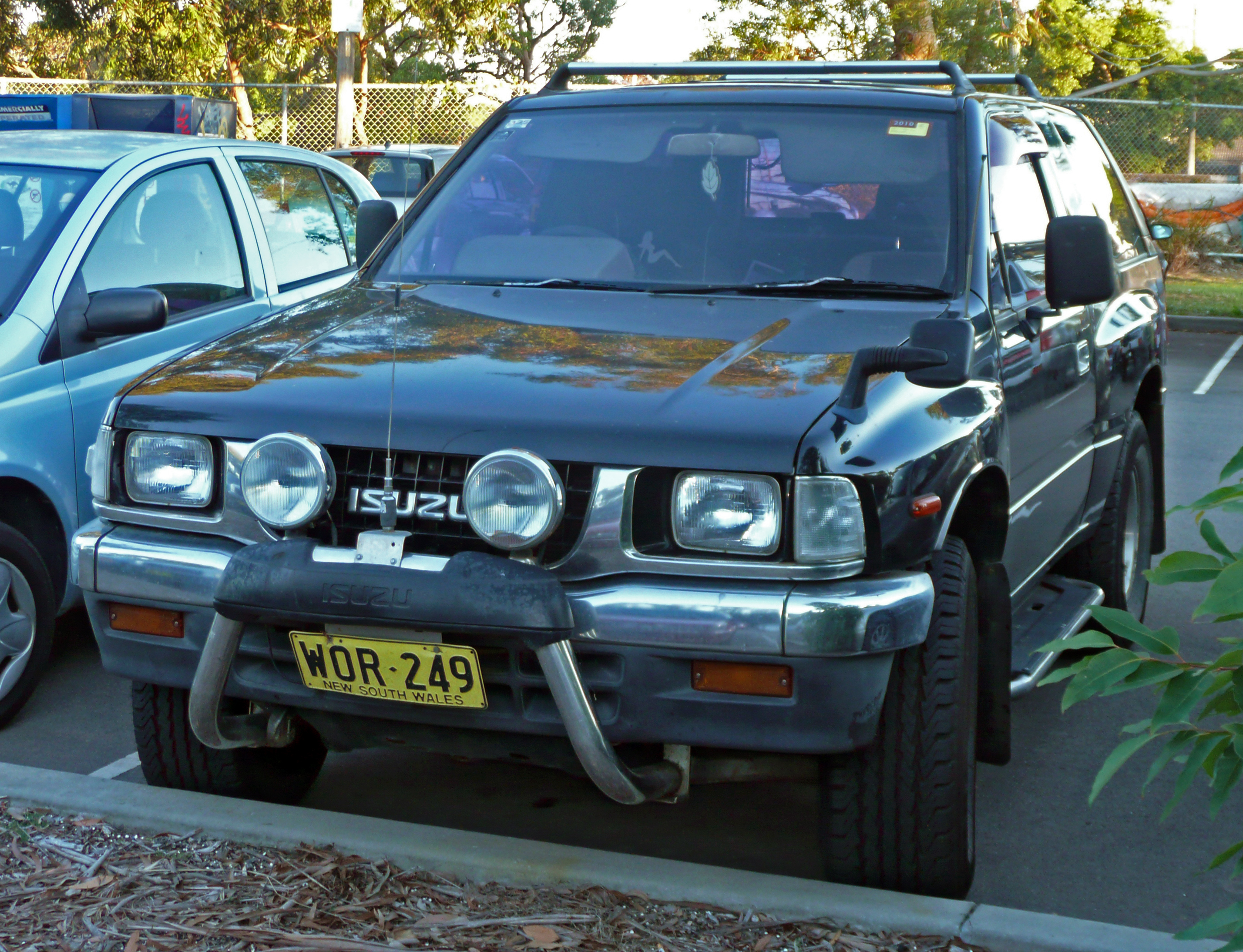 1993 Isuzu MU (UCS55) hardtop. This is a grey import from Japan, complianced for Australia. Photographed in Kirrawee, New South Wales, Australia.